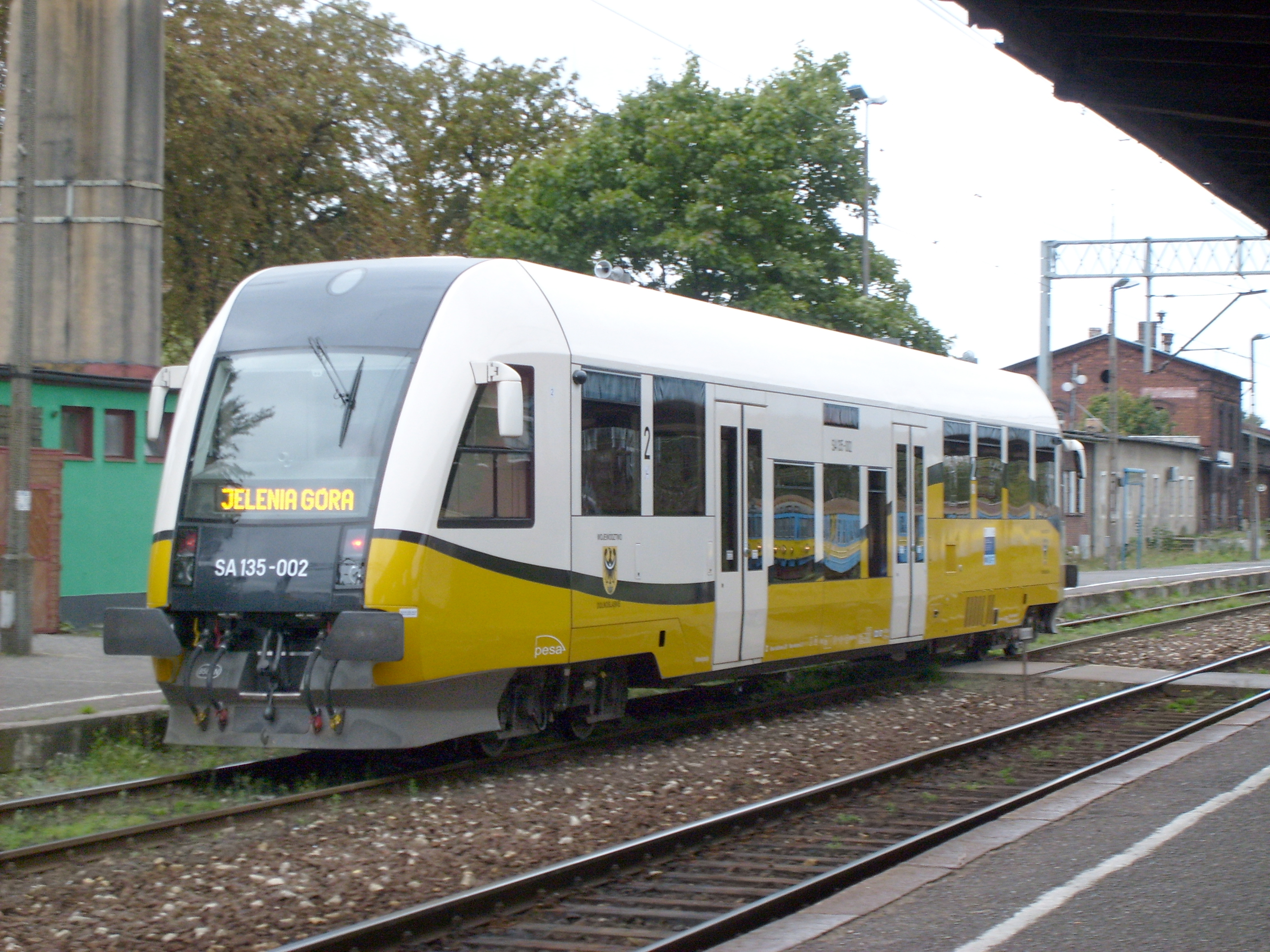 Diesel railcar SA135-002 departing Jelenia Góra on a Lower Silesia Regional Railways service to Jelenia Góra